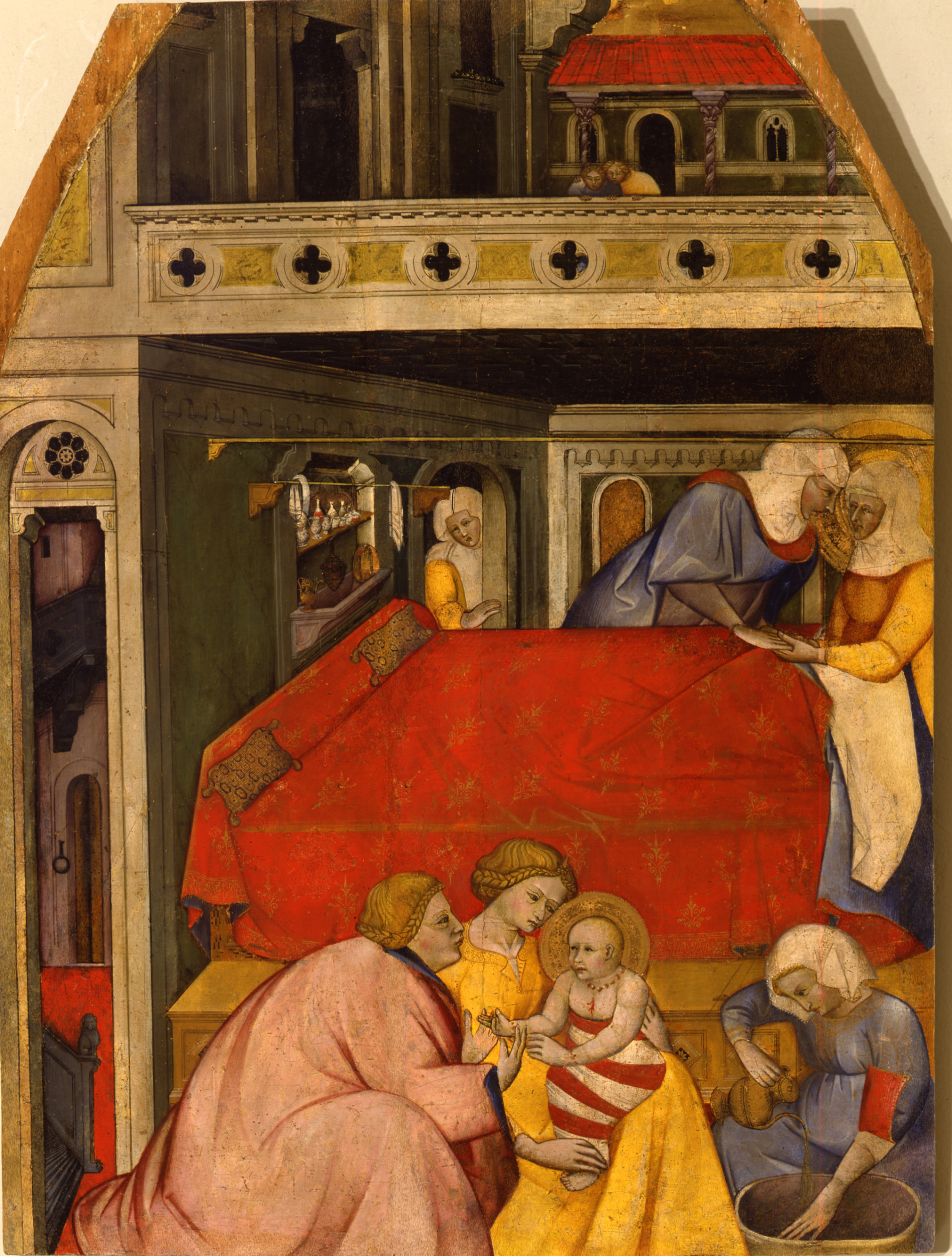 Cennino Cennini Nativity of the Virgin, 1390-1400, Siena, Pinacoteca Nazionale